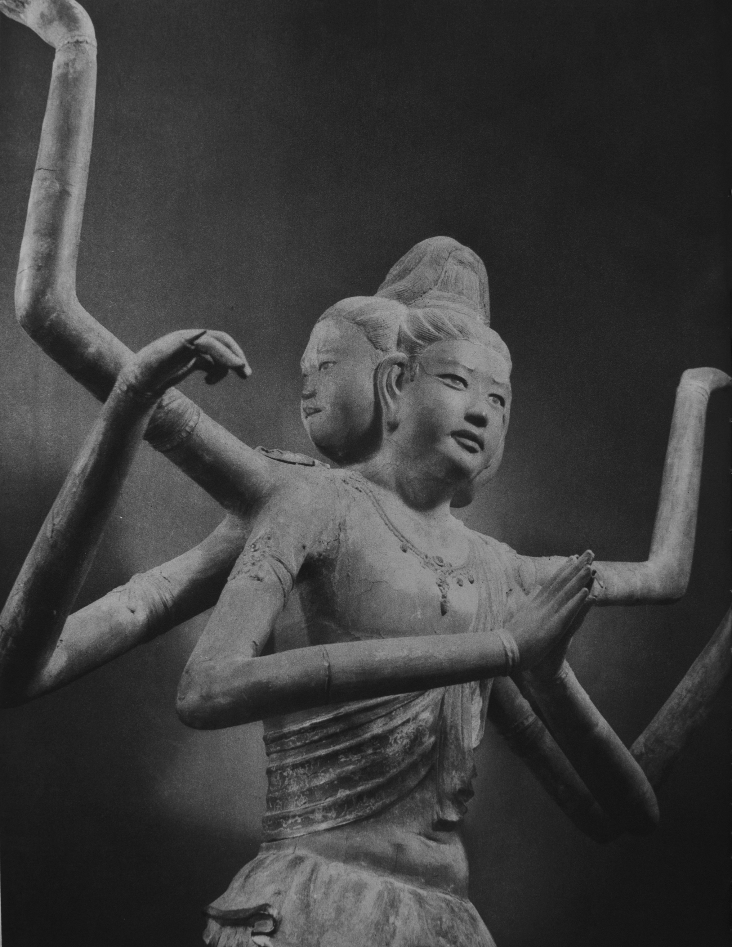 Kofukuji, Nara, Japan